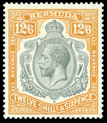 The first revenue stamp of Bermuda (SG #F1). Face value: 12s and 6d.